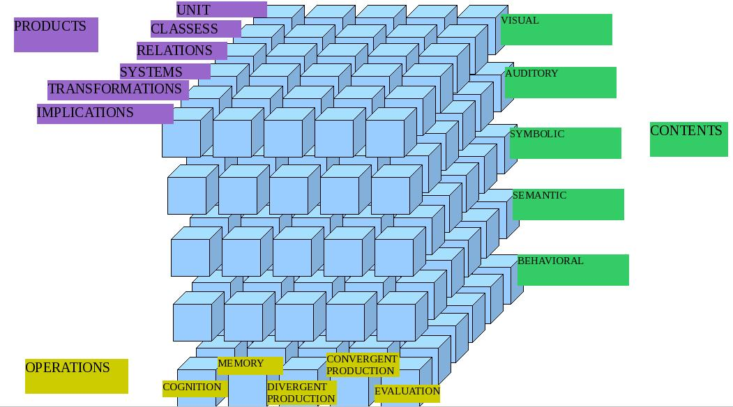 Guilford's structure of intellect. Based on information from Guilford, J.P. (1980). Some changes in the structure of intellect model. Educational and Psychological Measurement, 48, 1-4.